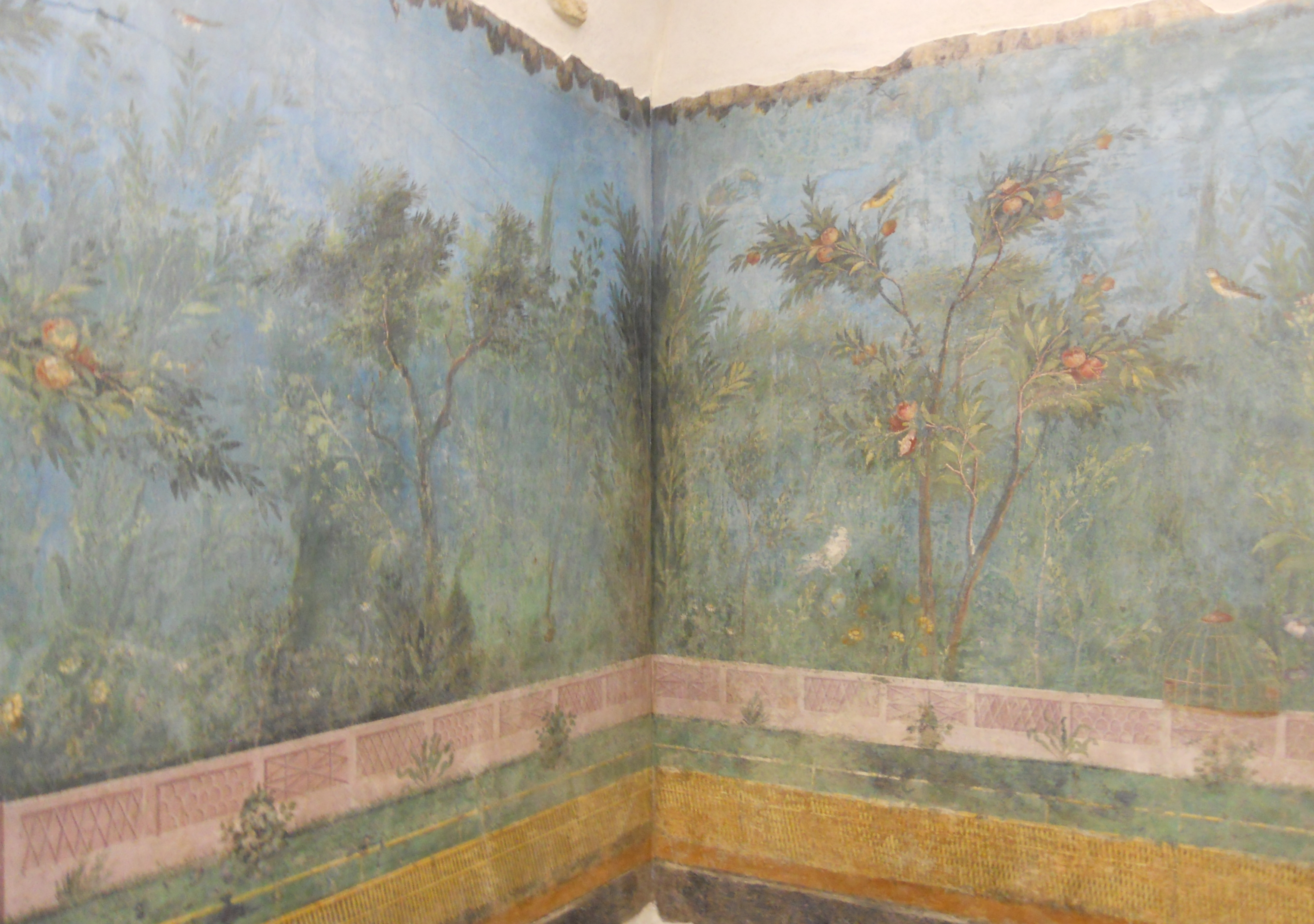 Villa of Livia